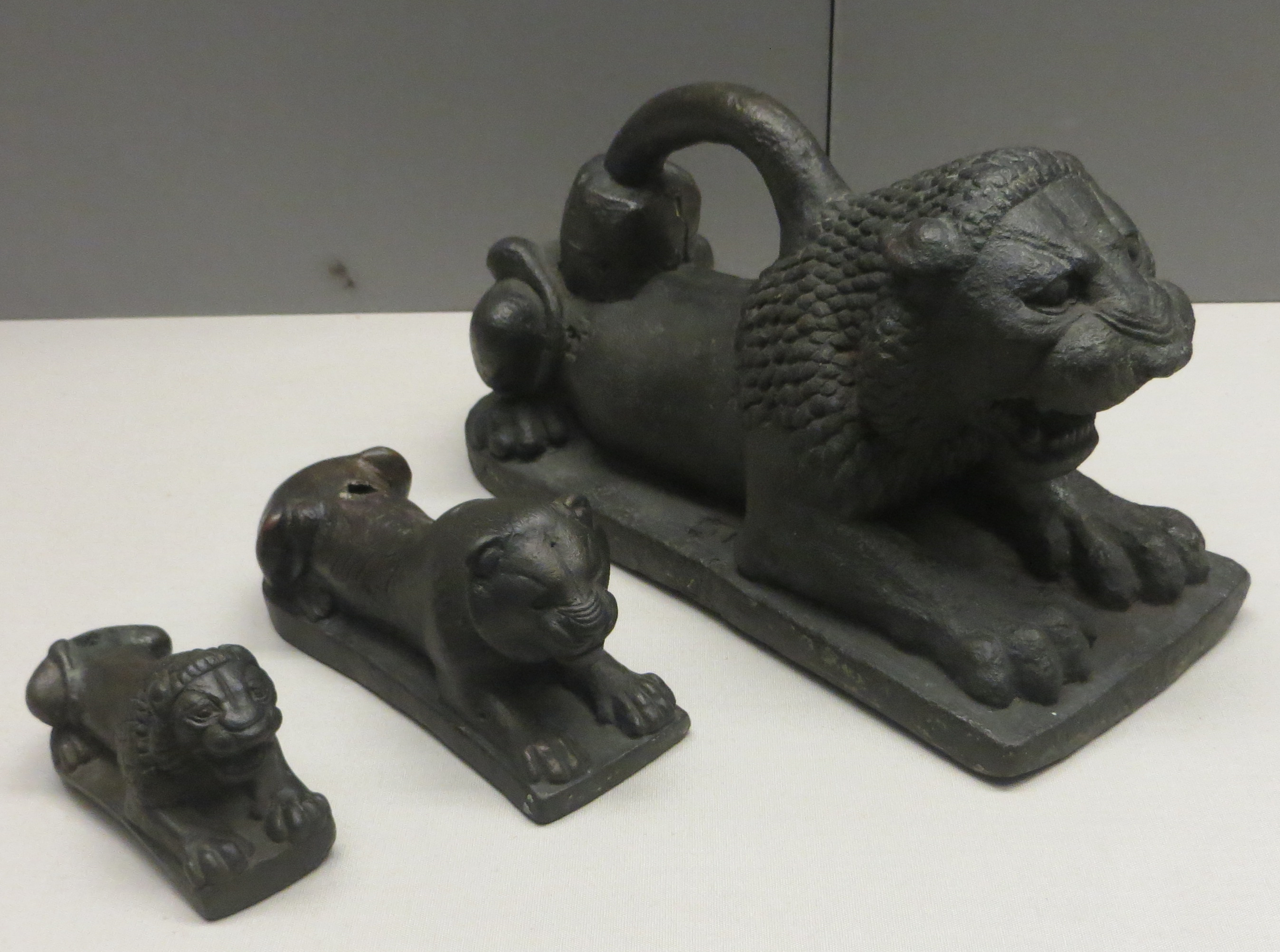 8th century BCE Lion weights from Assyria in British Museum - crop